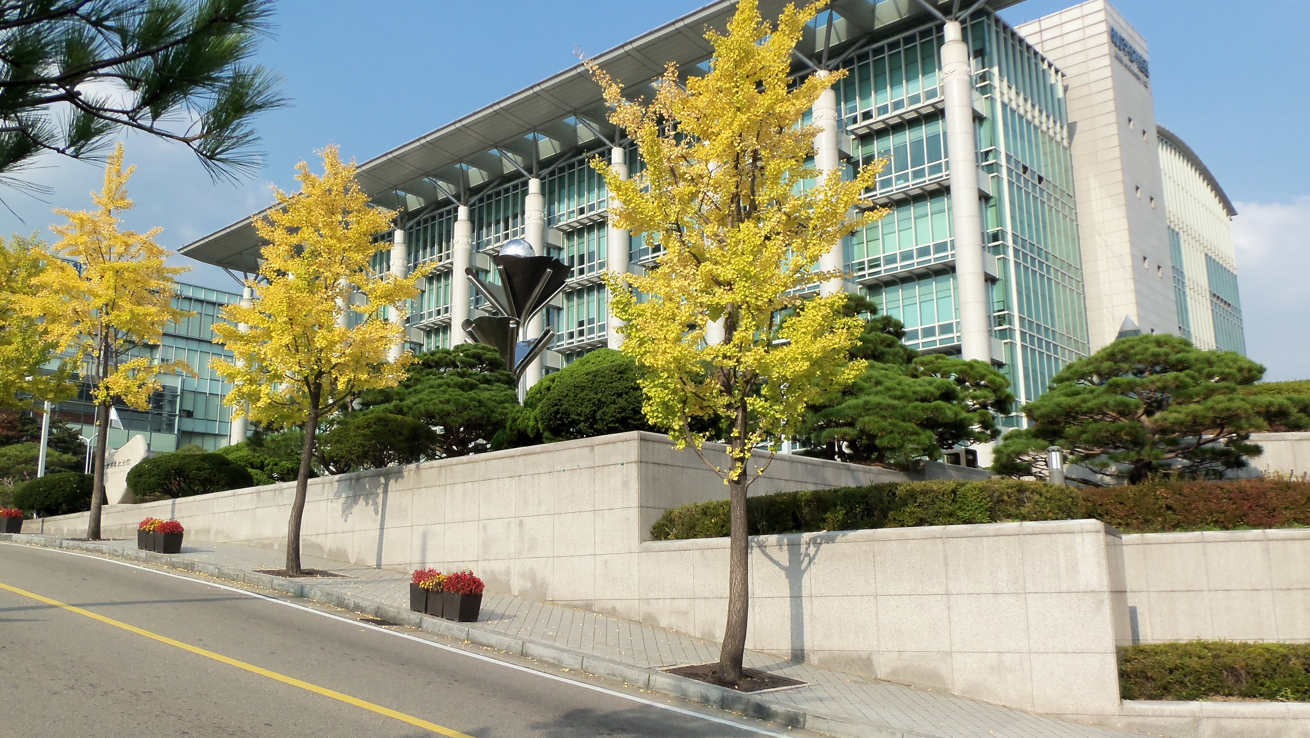 600 Anniversary Hall of Sungkyunkwan University.